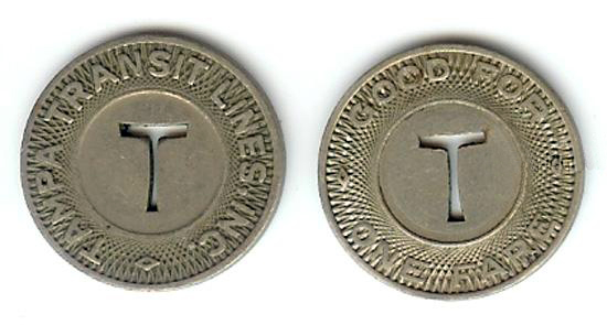 Tampa Transit Lines fare token.